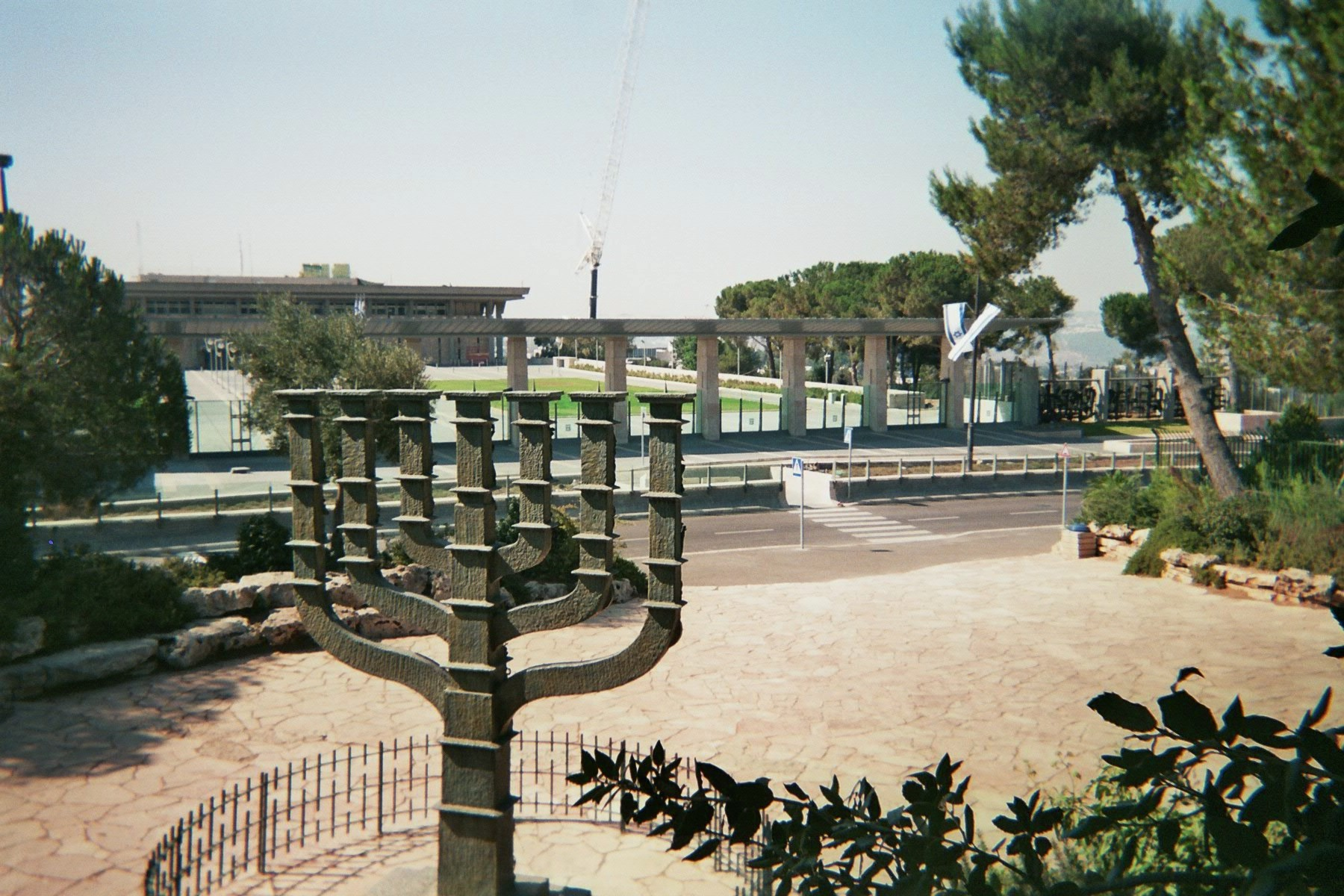 Jerusalem Menora Knesset